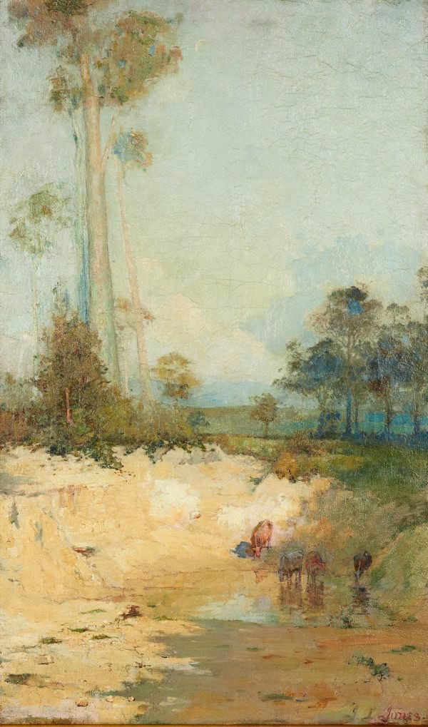 The Dry Season, oil on canvas, 76.5 x 45.5 cm stretcher; 99.5 x 68.3 x 11.0 cm frame.